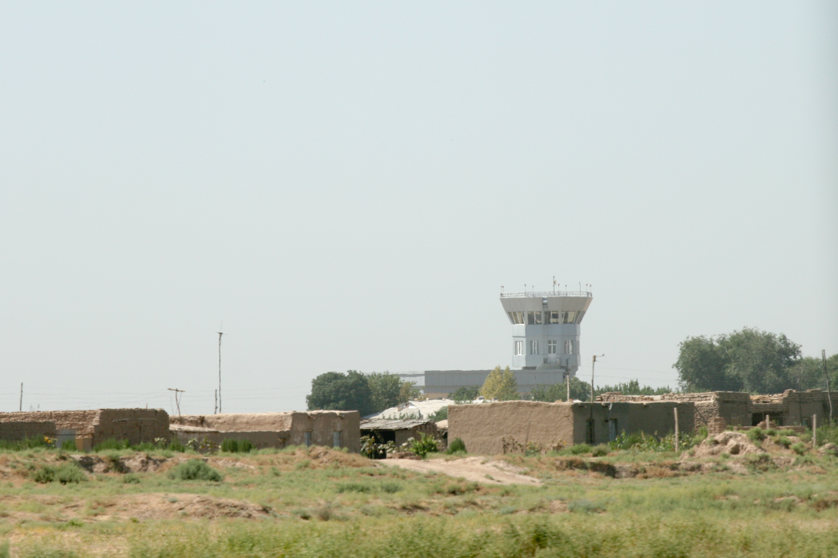 US airbase in Qarshi, in Southern Uzbekistan